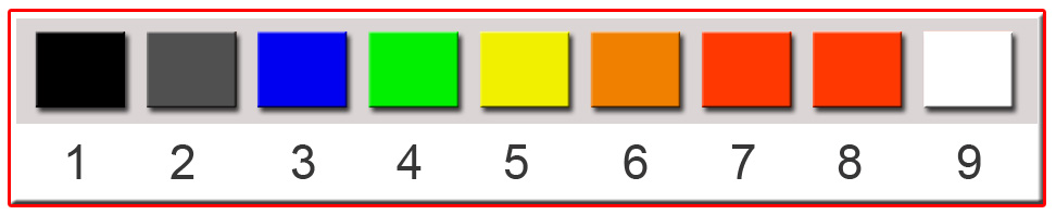 John Bortle created a light pollution scale (Bortle Dark-Sky Scale) for the February 2001 edition of Sky and Telescope Magazine, and used (her for Example) to characterize the quality of the nighttime environment in terms of presence / absence of light pollution